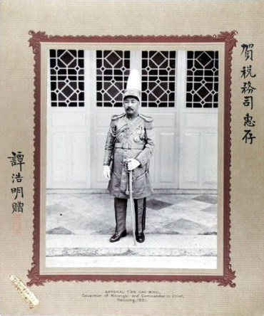 Tan Haoming